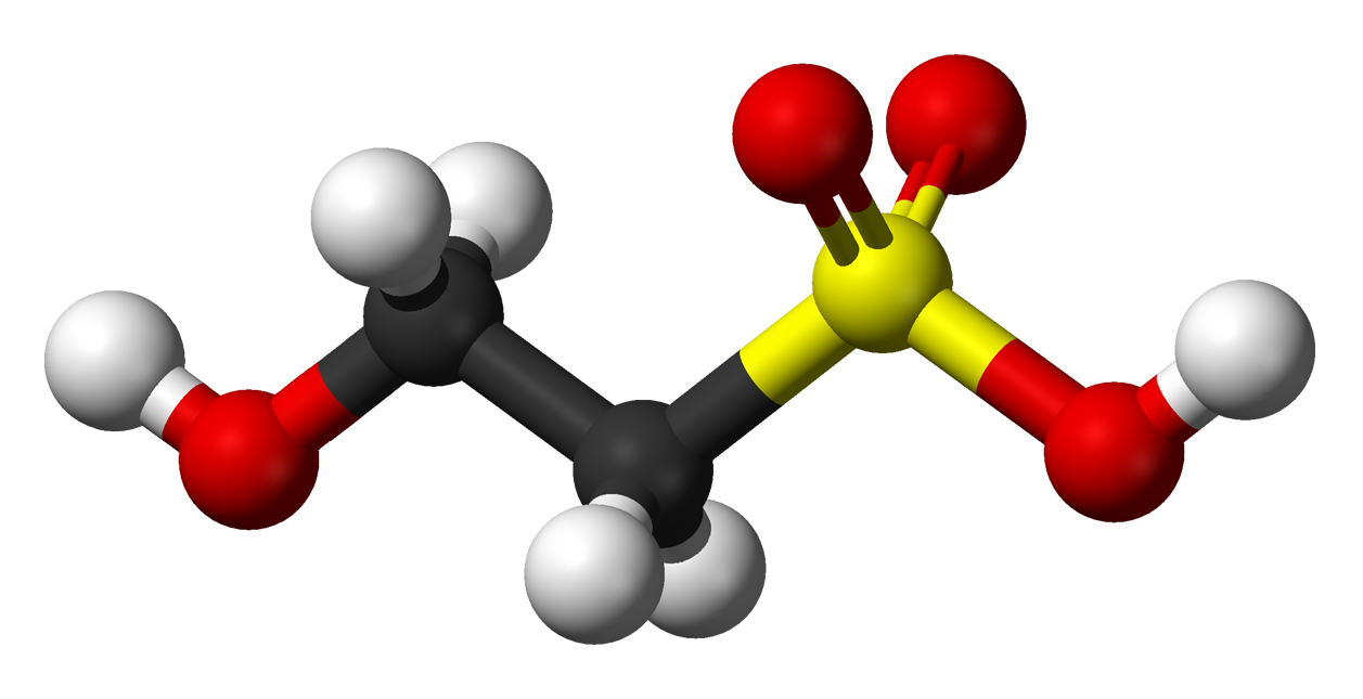 Ball-and-stick model of the isethionic acid molecule.